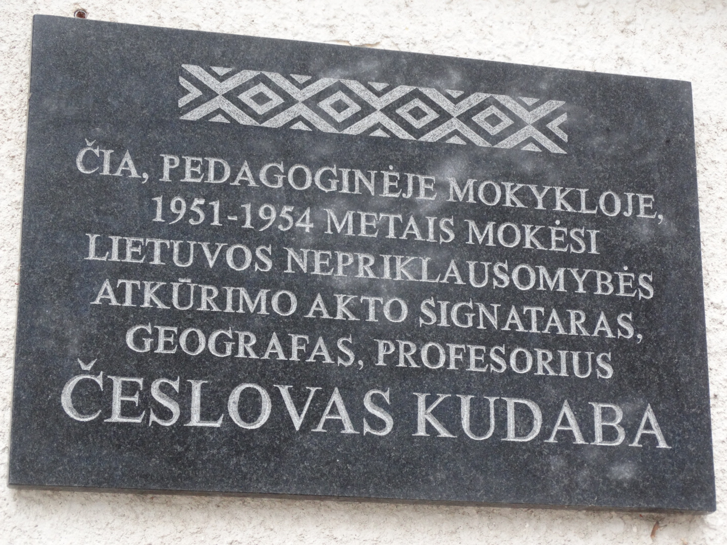 Memorial board, Česlovas Kudaba, Švenčionėliai, Lithuania